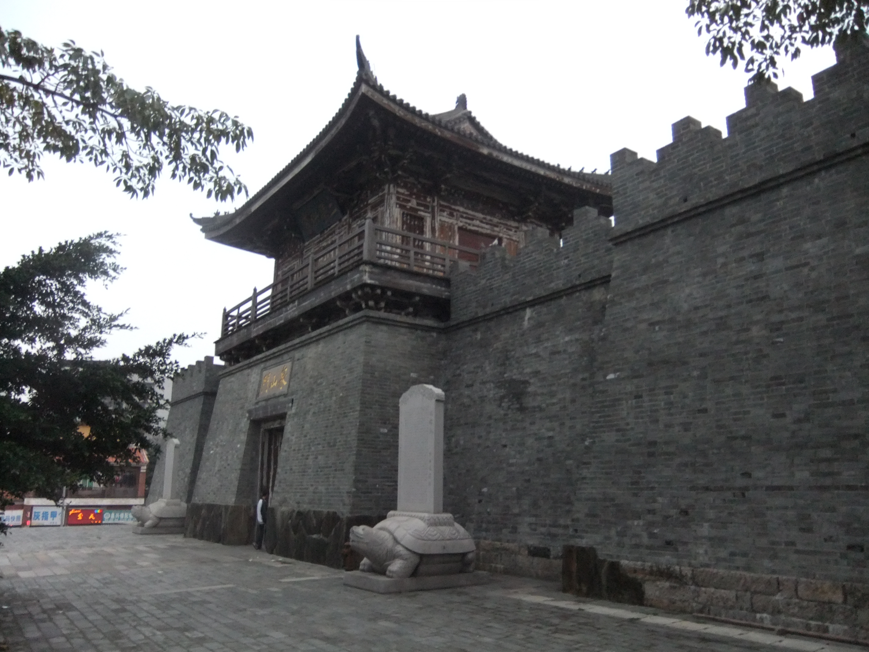 The restored Quanshan Gate of Quanzhou, flanked by two bixi turtles.